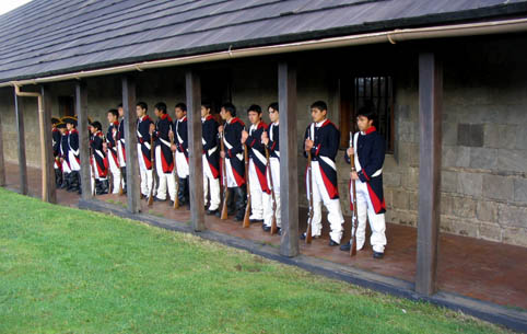 Actors in the Niebla fort museum. I took this photo.